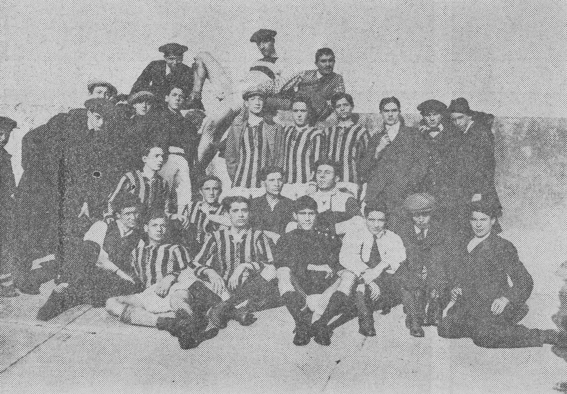 Pisa Sporting Club's players in 1909.